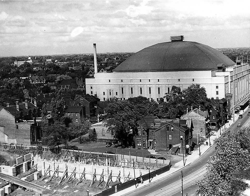 Carlton Street and Maple Leaf Gardens, looking northeast